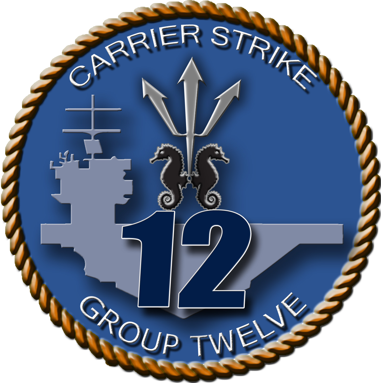 Commander Carrier Strike Group 12 (CCSG-12) emblem